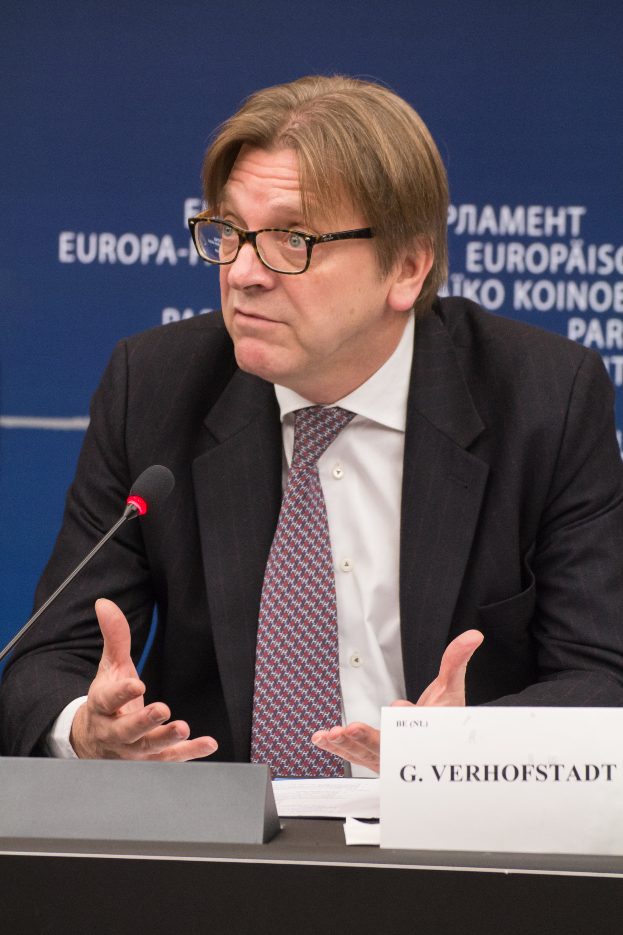 Guy Verhofstadt (ALDE, Member of the European Parliament) during a press conference in the European Parliament, Strasbourg